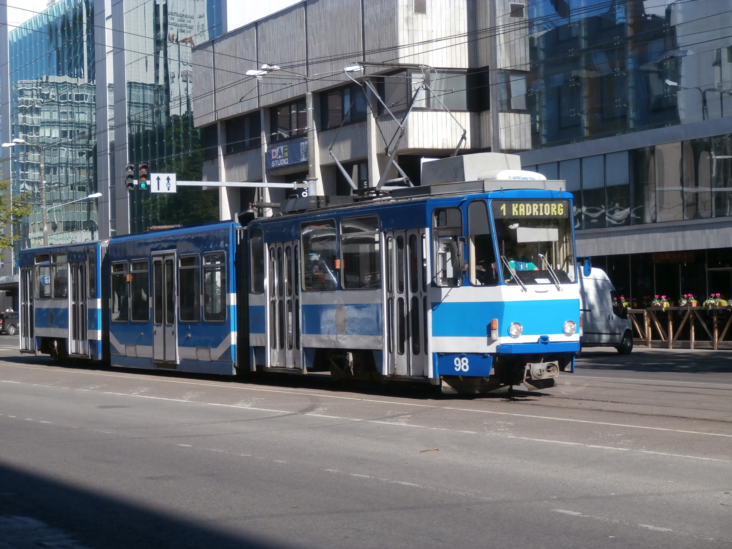 Tram 98 in front of Park Inn by Radisson Central Tallinn 6 June 2015